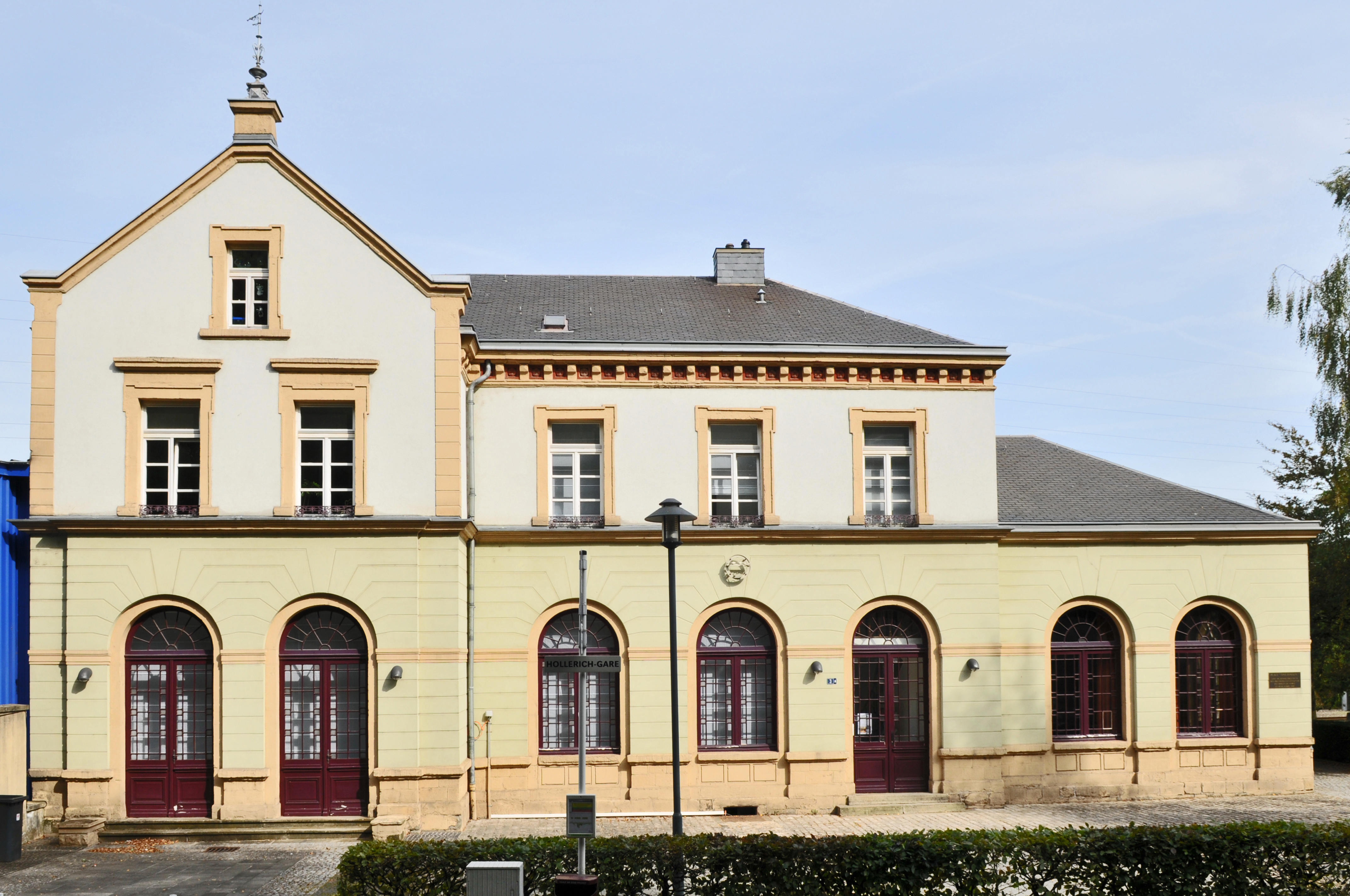 The former railway station at Luxembourg/Hollerich from where, during the Second World War, individuals were deported by the nazis, many to concentration camps, in Germany. The building presently houses an exhibition to remind those events.